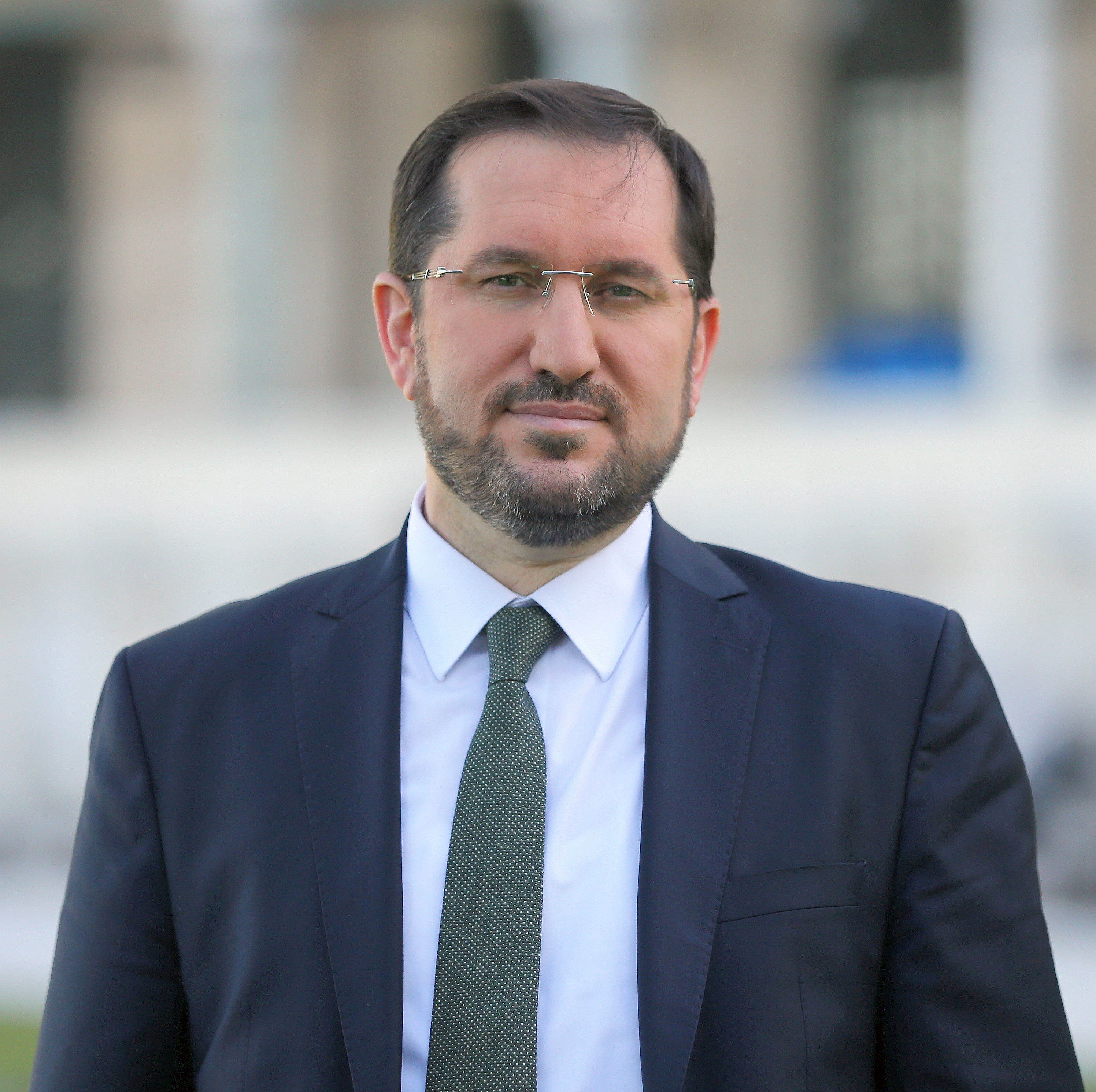 Profile picture used by Mustafa Tutkun